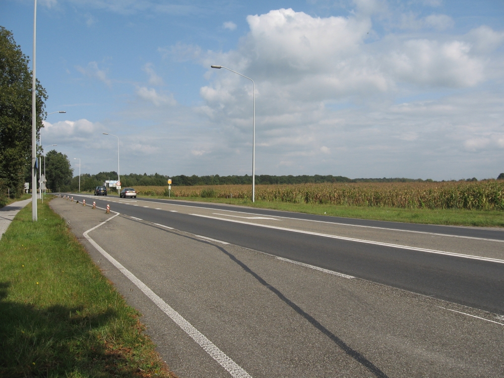 Dutch Provincial Road 733 near Lonneker